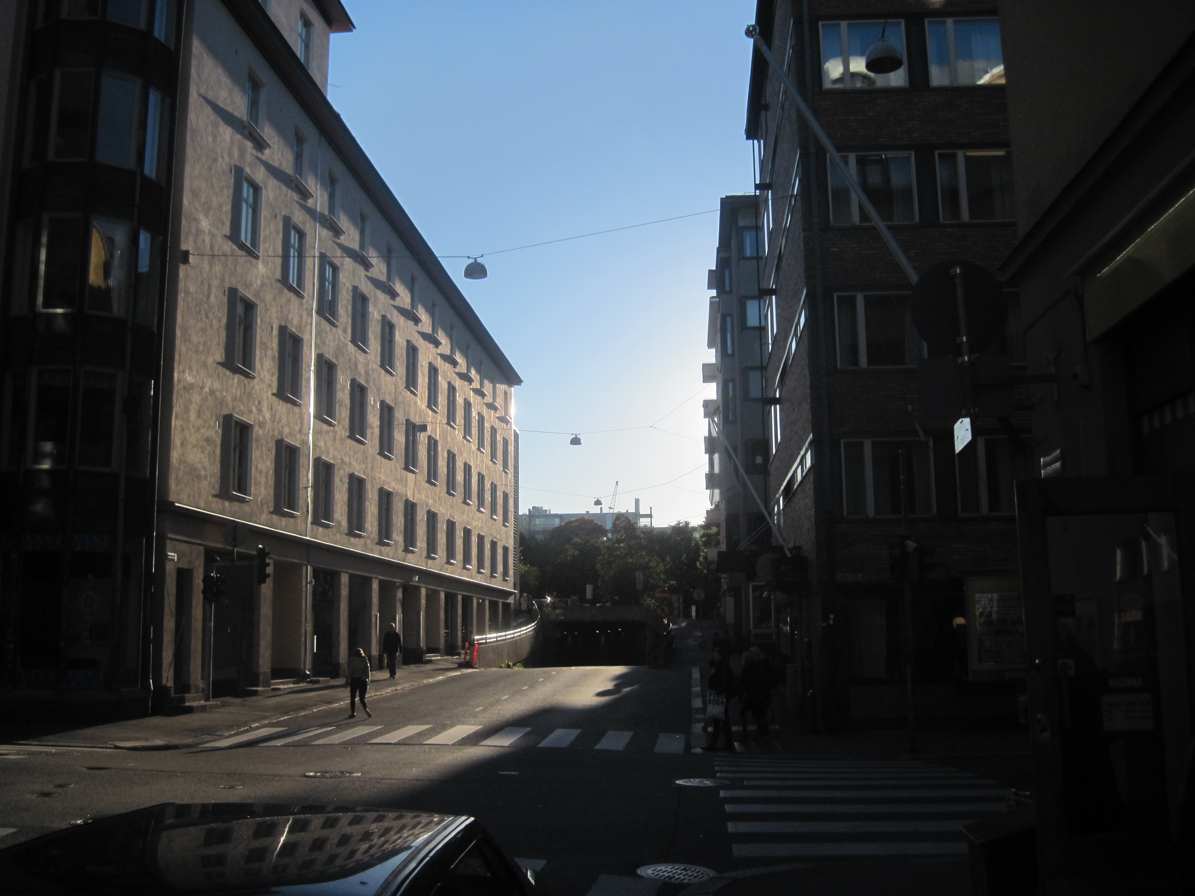 Tunnel at the Western end of Uudenmaankatu in Helsinki, Finland